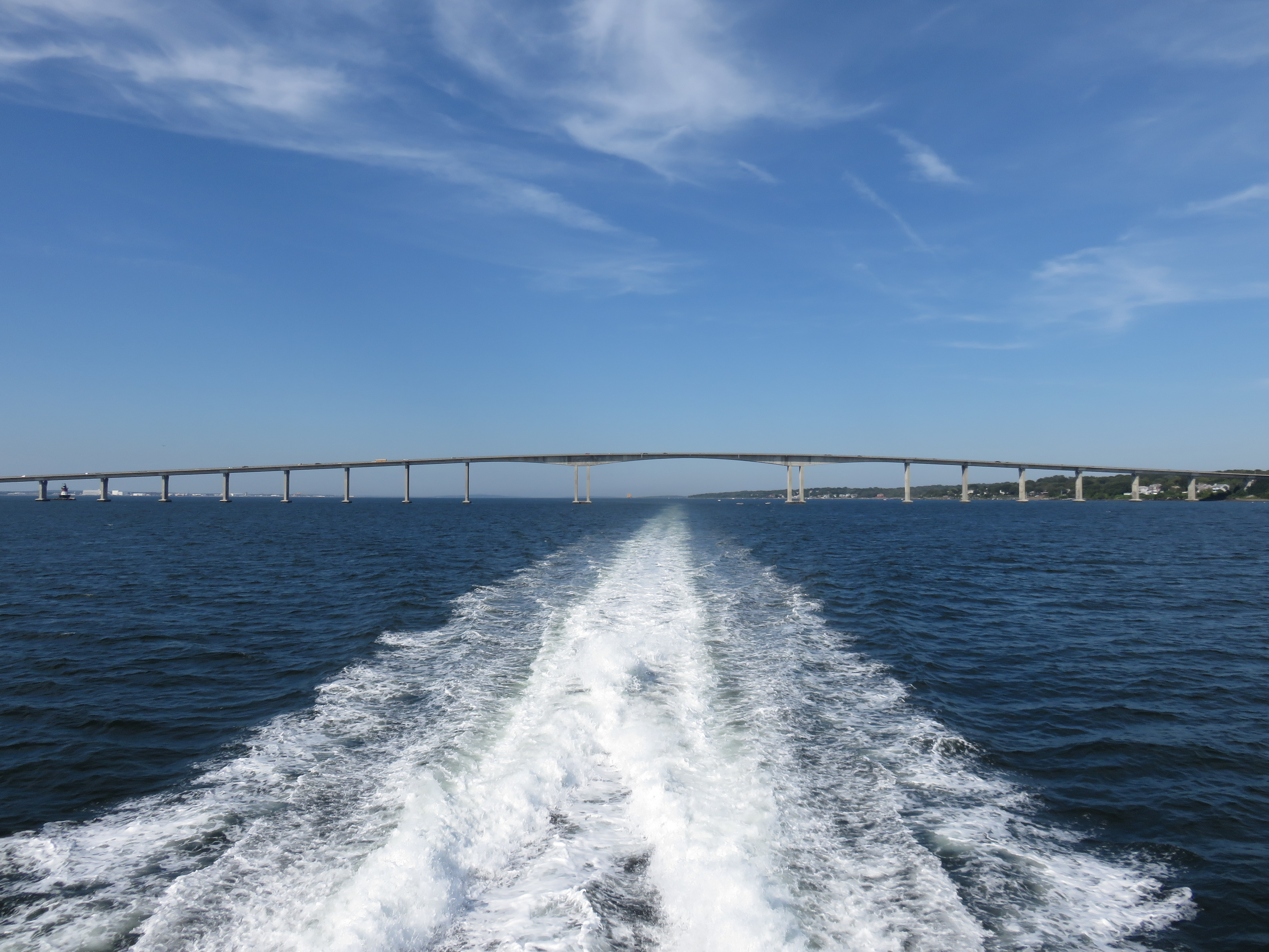 Jamestown Verrazzano Bridge in Rhode Island 2015